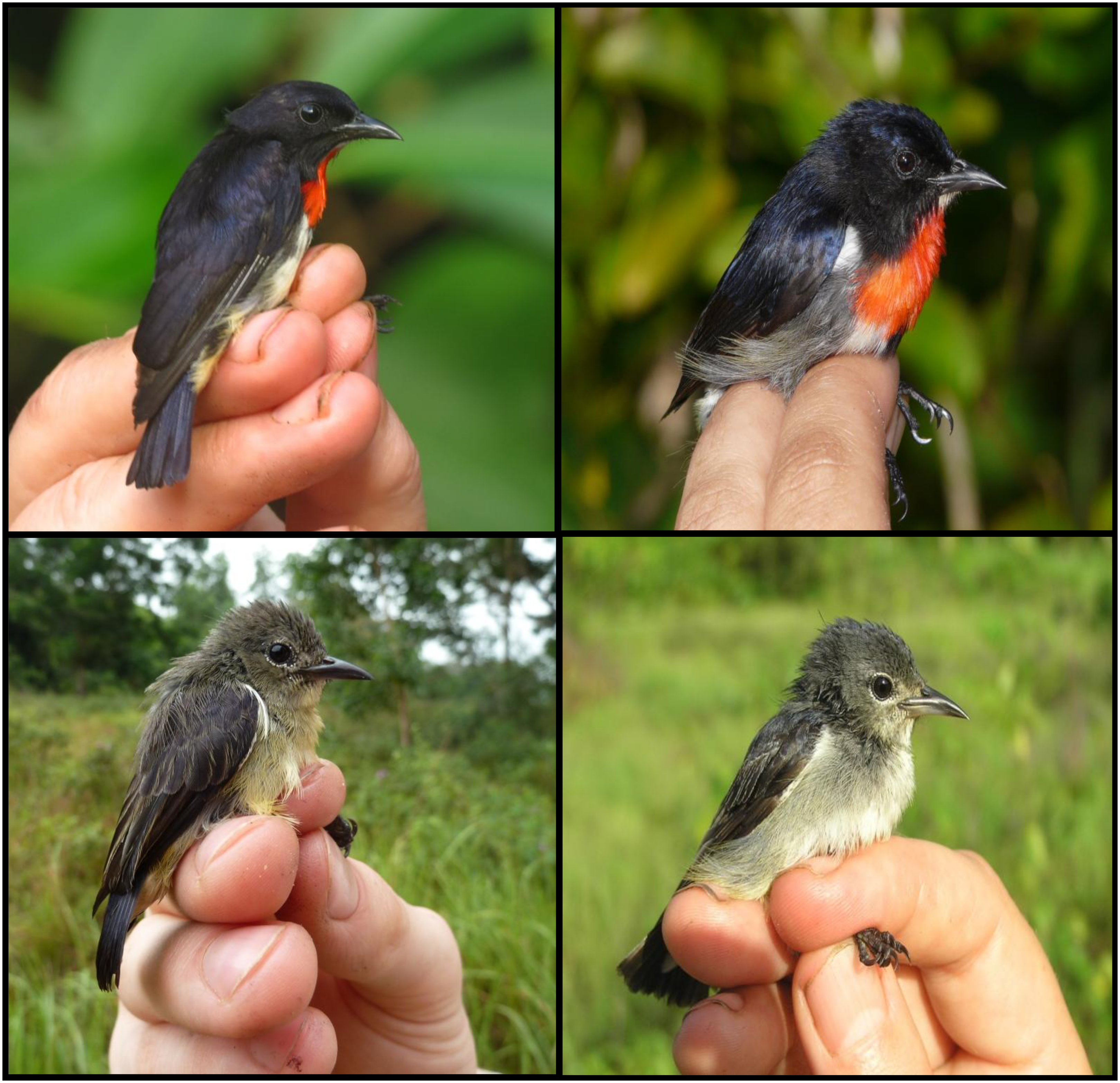 A comparison of plumage characteristics between Grey-sided flowerpeckers (Dicaeum celebicum) from mainland Sulawesi (left) and Wakatobi flowerpeckers (Dicaeum kuehni) from the Wakatobi archipelago (right). Male flowerpeckers are on the top and females on the bottom.